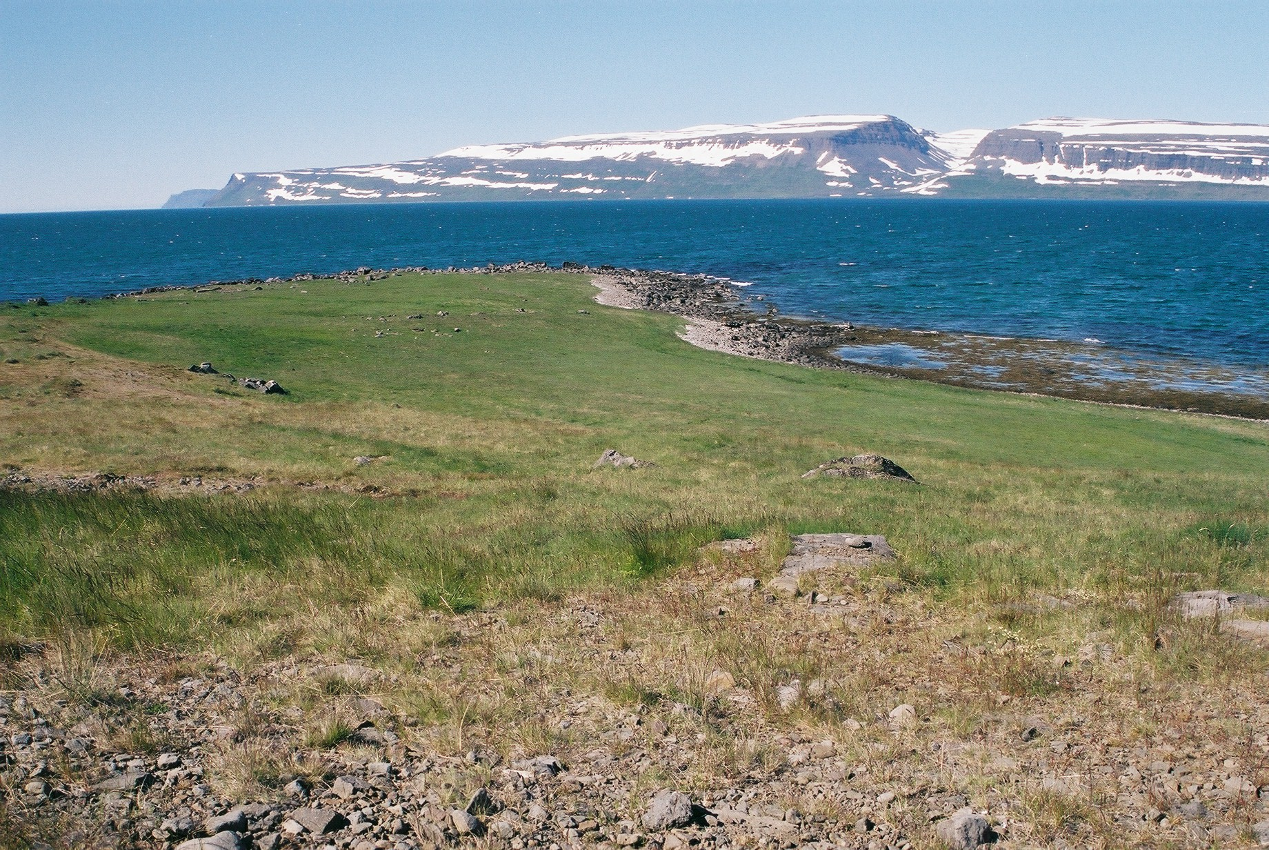 West-Fjords, Iceland